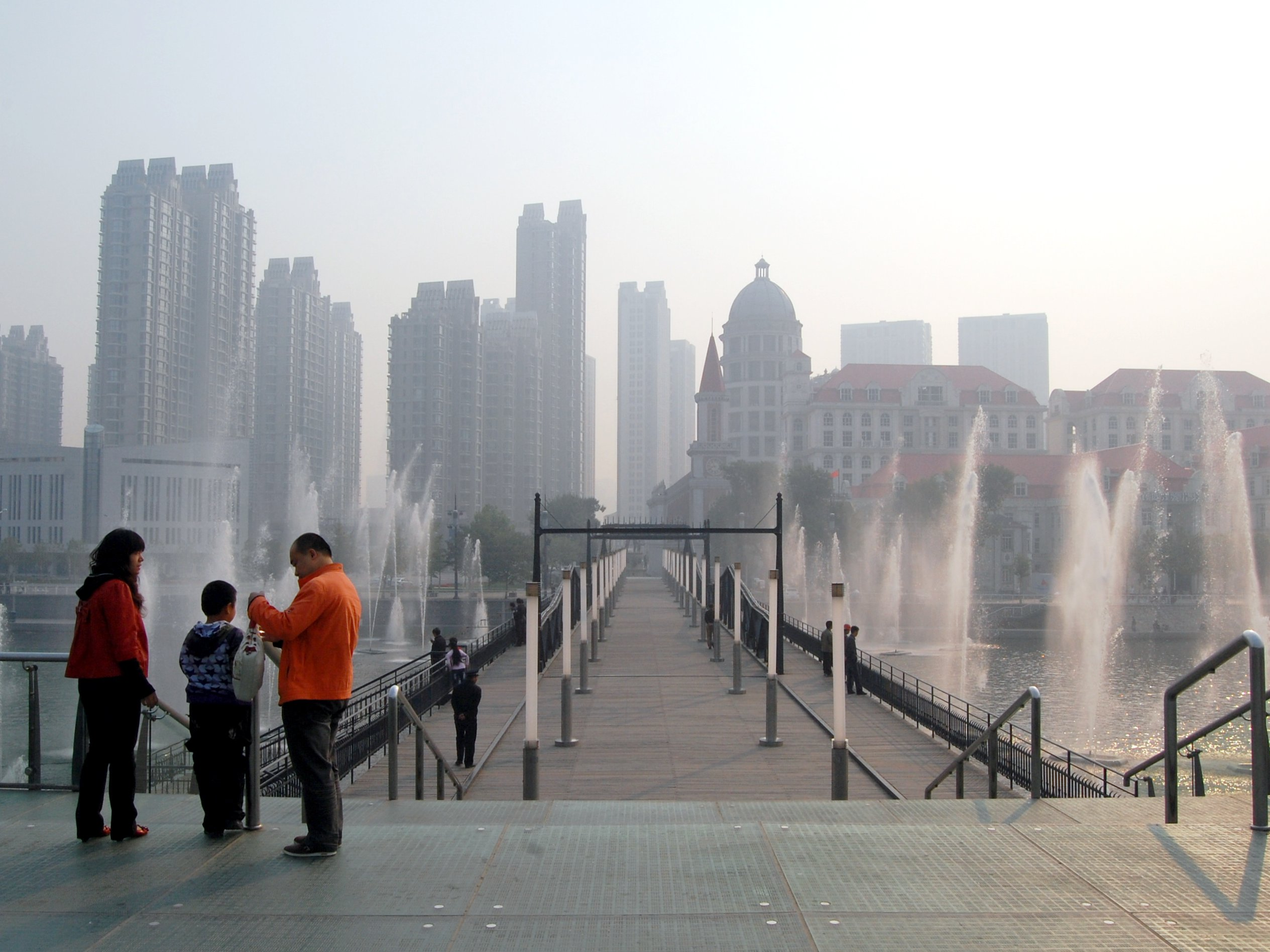 That's a church at the end of the bridge (October 2010). :-D